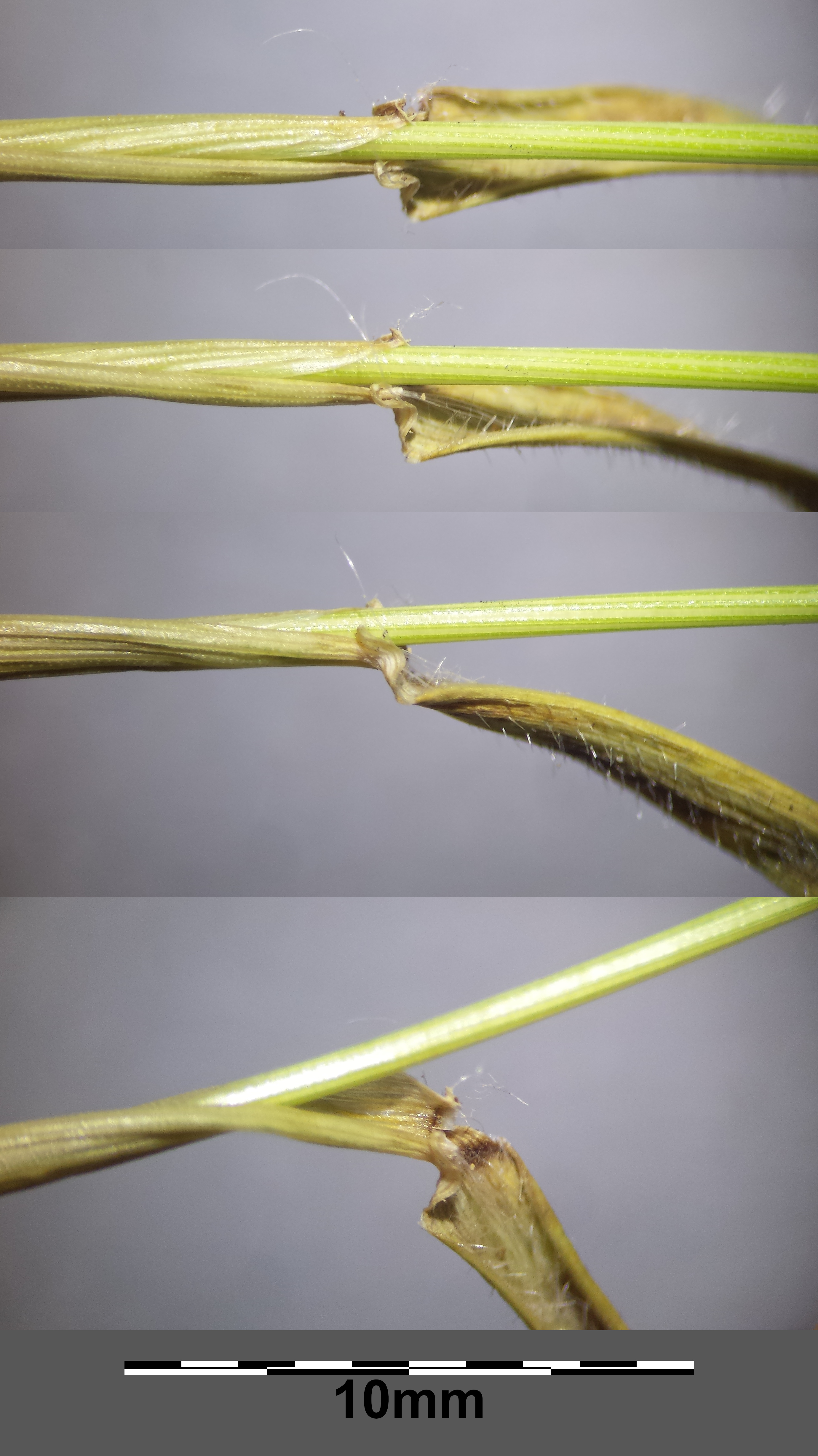 Stem with leaf sheath and ligule Taxonym: Aegilops geniculata ss Rottensteiner: Exkursionsflora für Istrien ISBN 978-3-85328-067-6 Location: southweast of Stara Baška, community Punat, Krk, County Primorje-Gorski kotar, Croatia Habitat: rocks nearby seaside